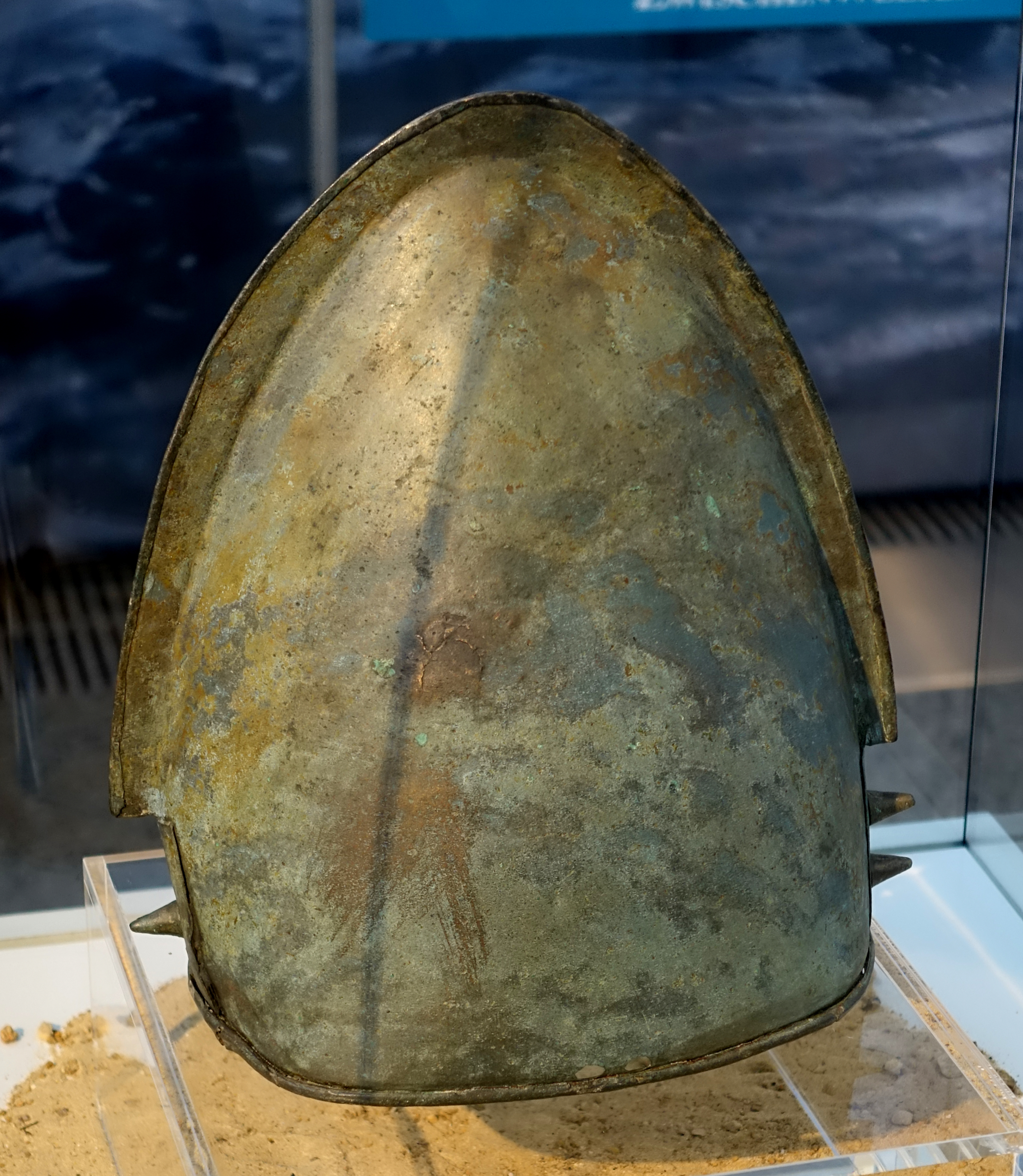 Exhibit in the Naturhistorisches Museum Nürnberg - Nuremberg, Germany.